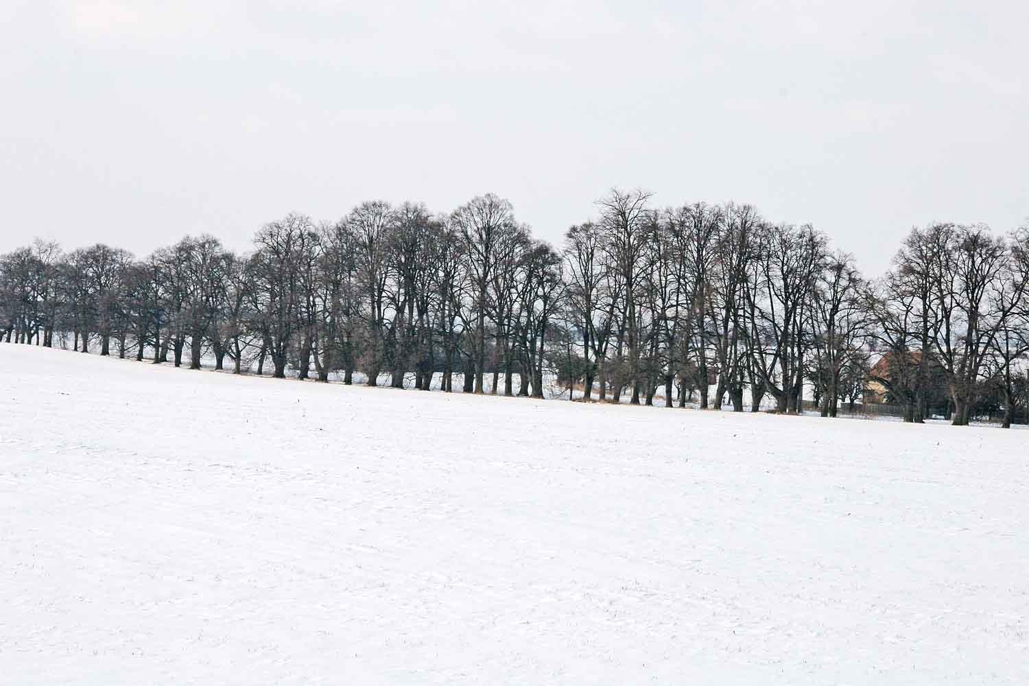 Tilia Avenue in Žleby